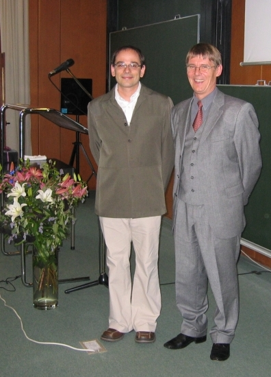 Mathematicians Paul Biran (left) and Gert-Martin Greuel (right) at the award ceremony of the Oberwolfach Prize, 2004 (cropped picture).